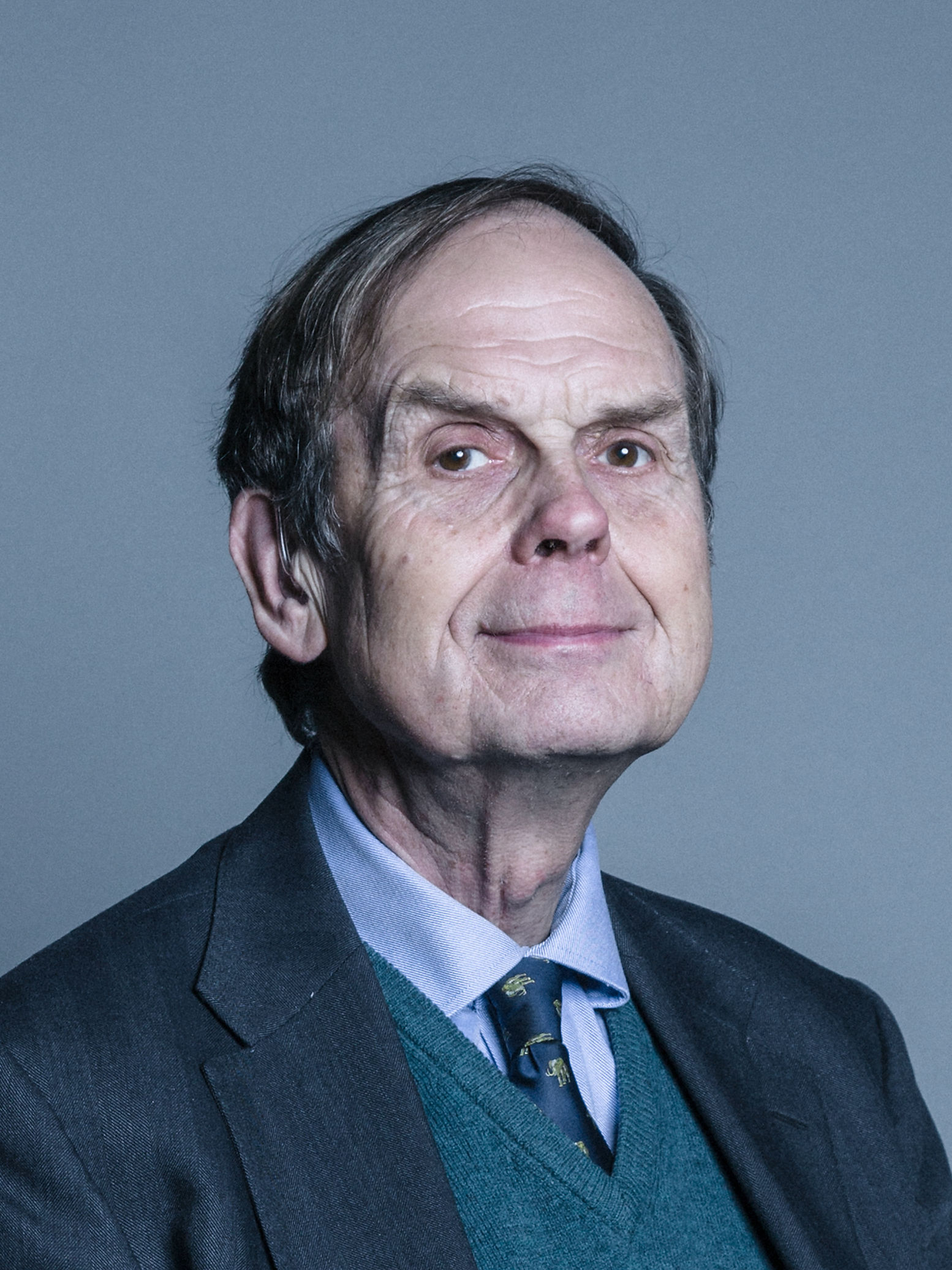 Official portrait of The Earl of Sandwich